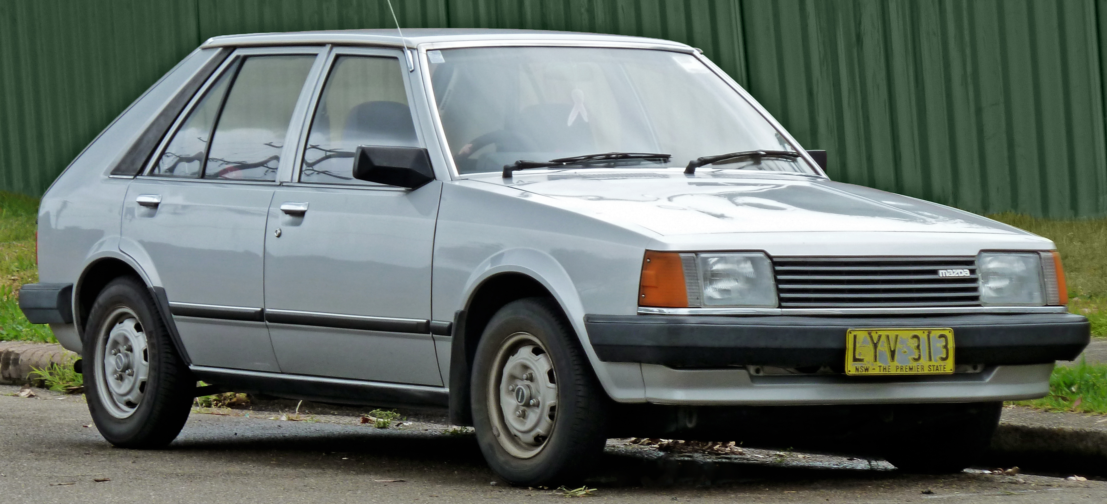 1980–1982 Mazda 323 (BD) Deluxe 5-door hatchback. This has been listed as a Deluxe trim due to the lack of chrome strip through the bumpers, side pinstriping and mudflaps [1], [2]. Photographed in Sans Souci, New South Wales, Australia.